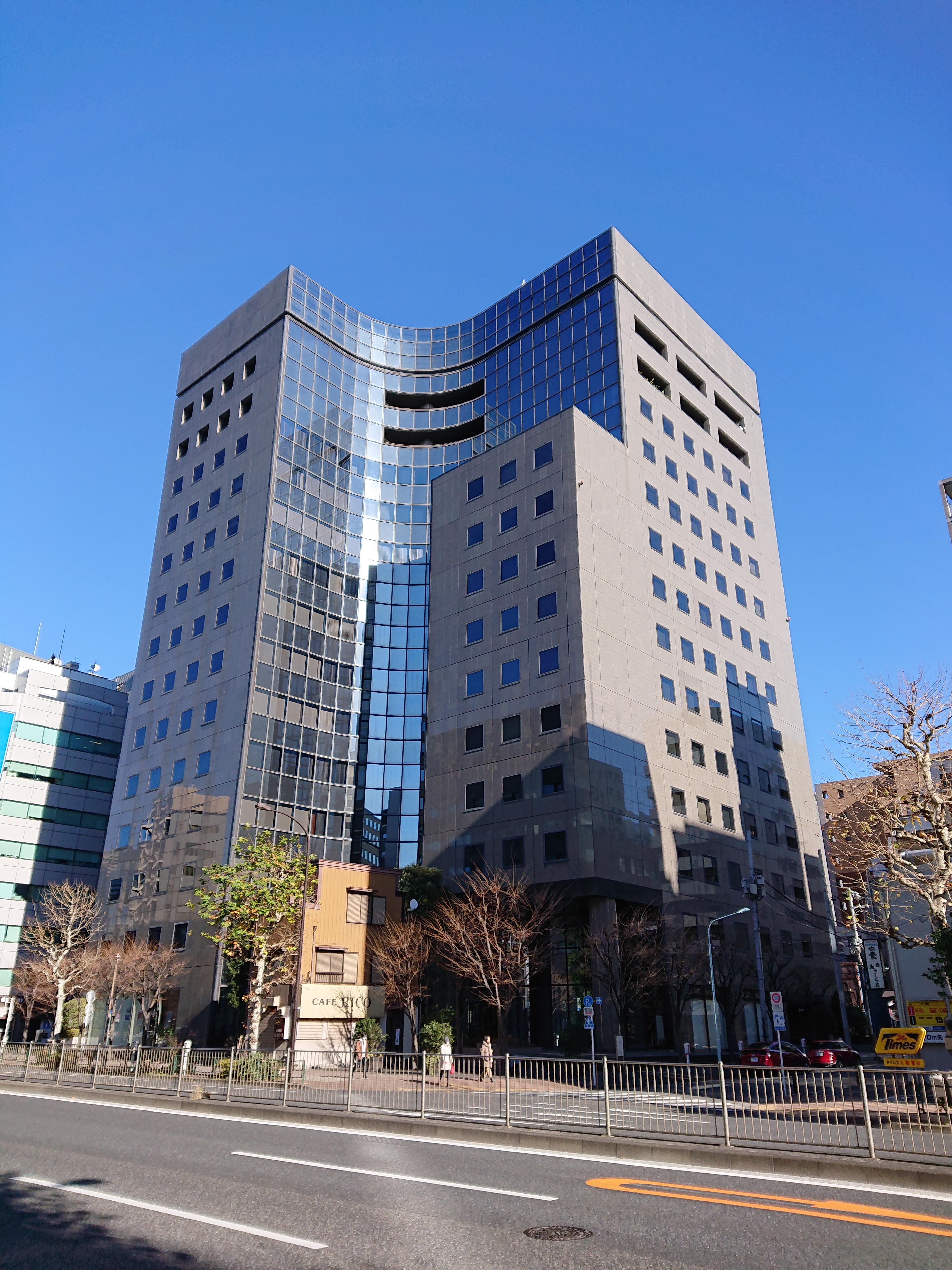 Sumitomo Irifune Building, located at 2-1-1 Irifune, Chuo, Tokyo, Japan